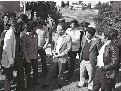 Visit of Prime Minister Yitzhak Rabin, People of Israel